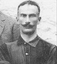 Fuat Husnu Kayacan.